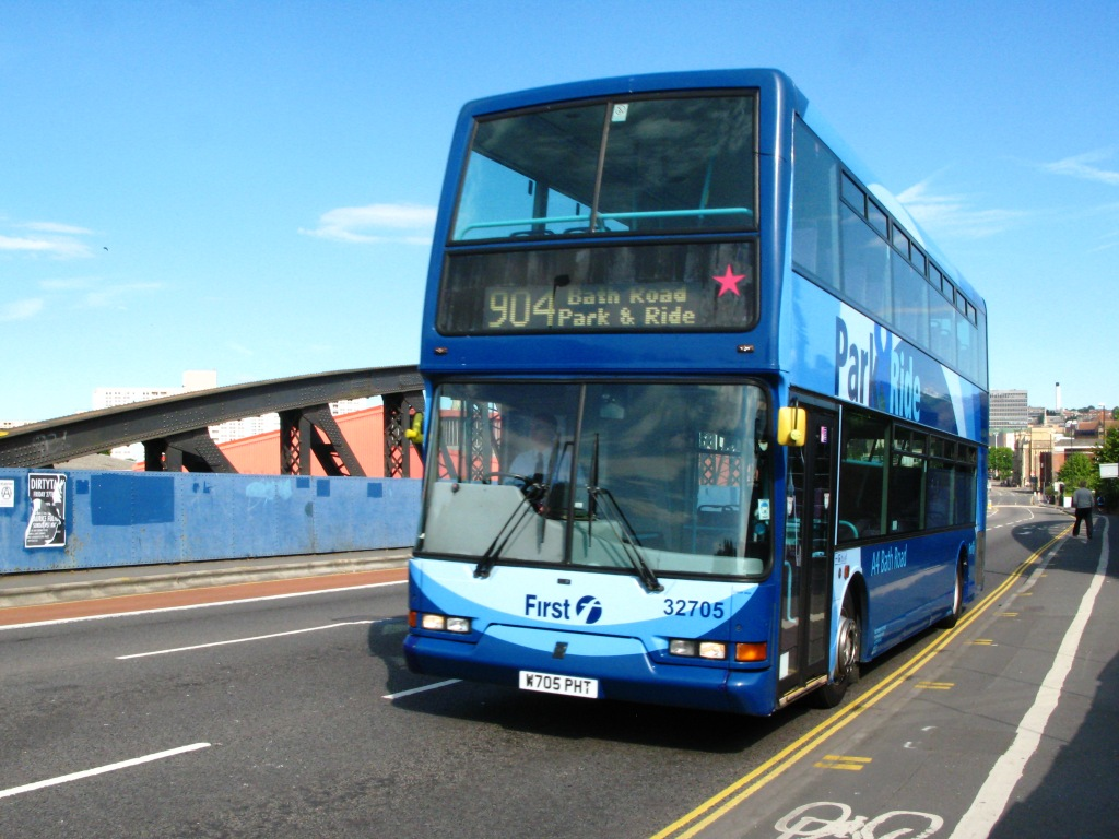 W705 PHT (First Bristol's 32705) passes over Bath Road Bridge with a Bristol Park and Ride service. It is a Dennis Trident with East Lancs body work.